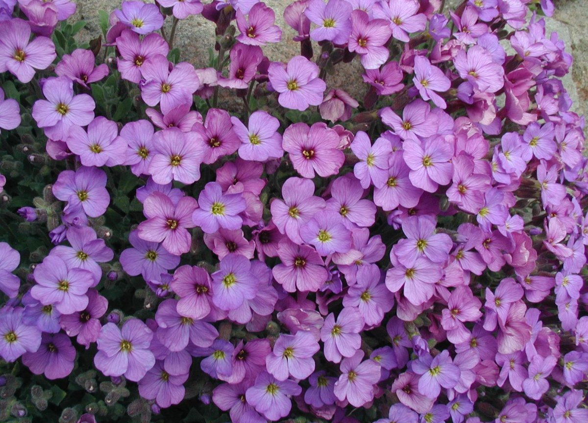 Aubrieta × cultorum: flowers. Photo: Sten Porse